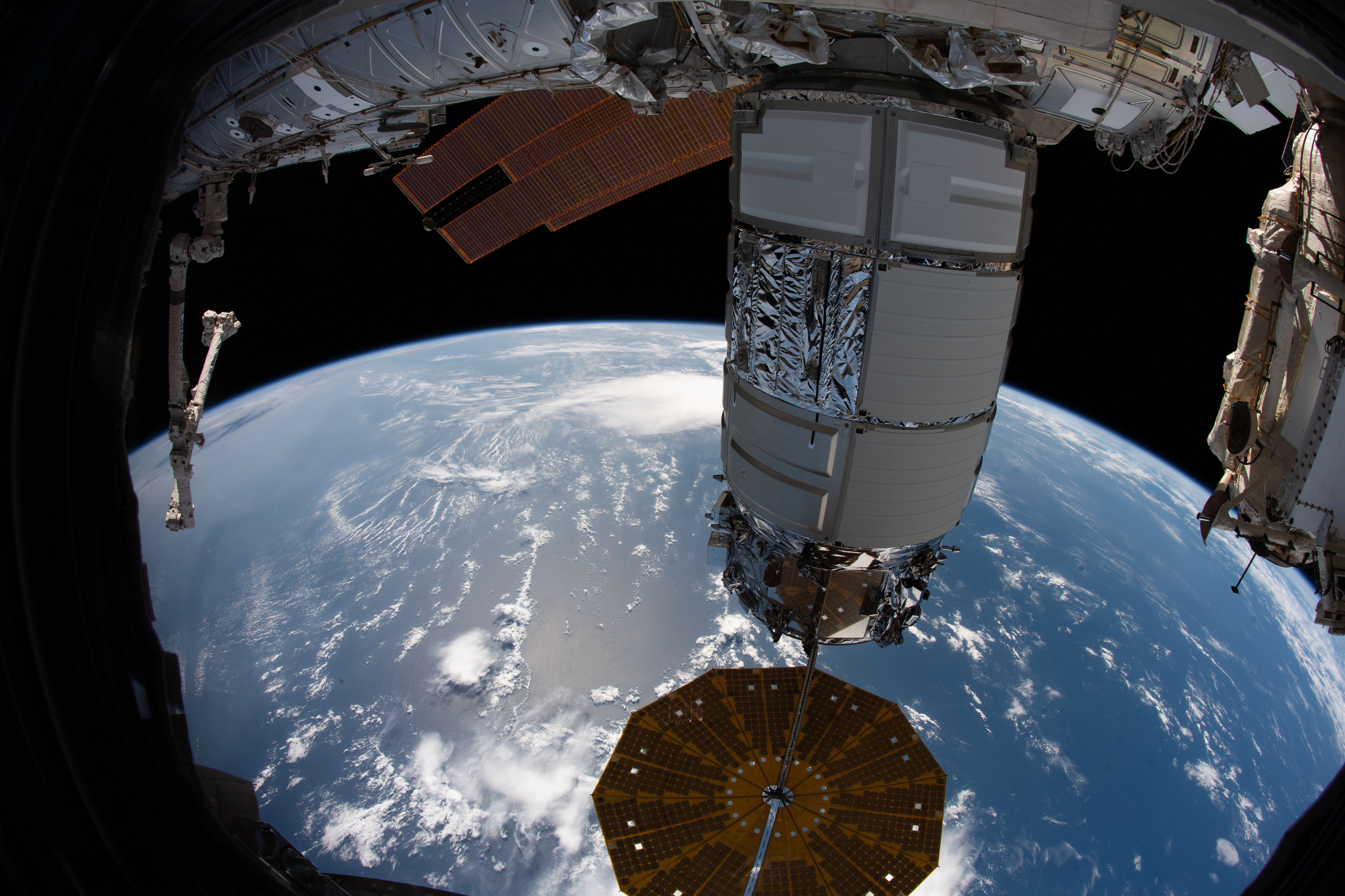 The U.S. Northrop Grumman Cygnus resupply ship is featured in this image as the International Space Station orbited above the Pacific Ocean off the coast of Central America.